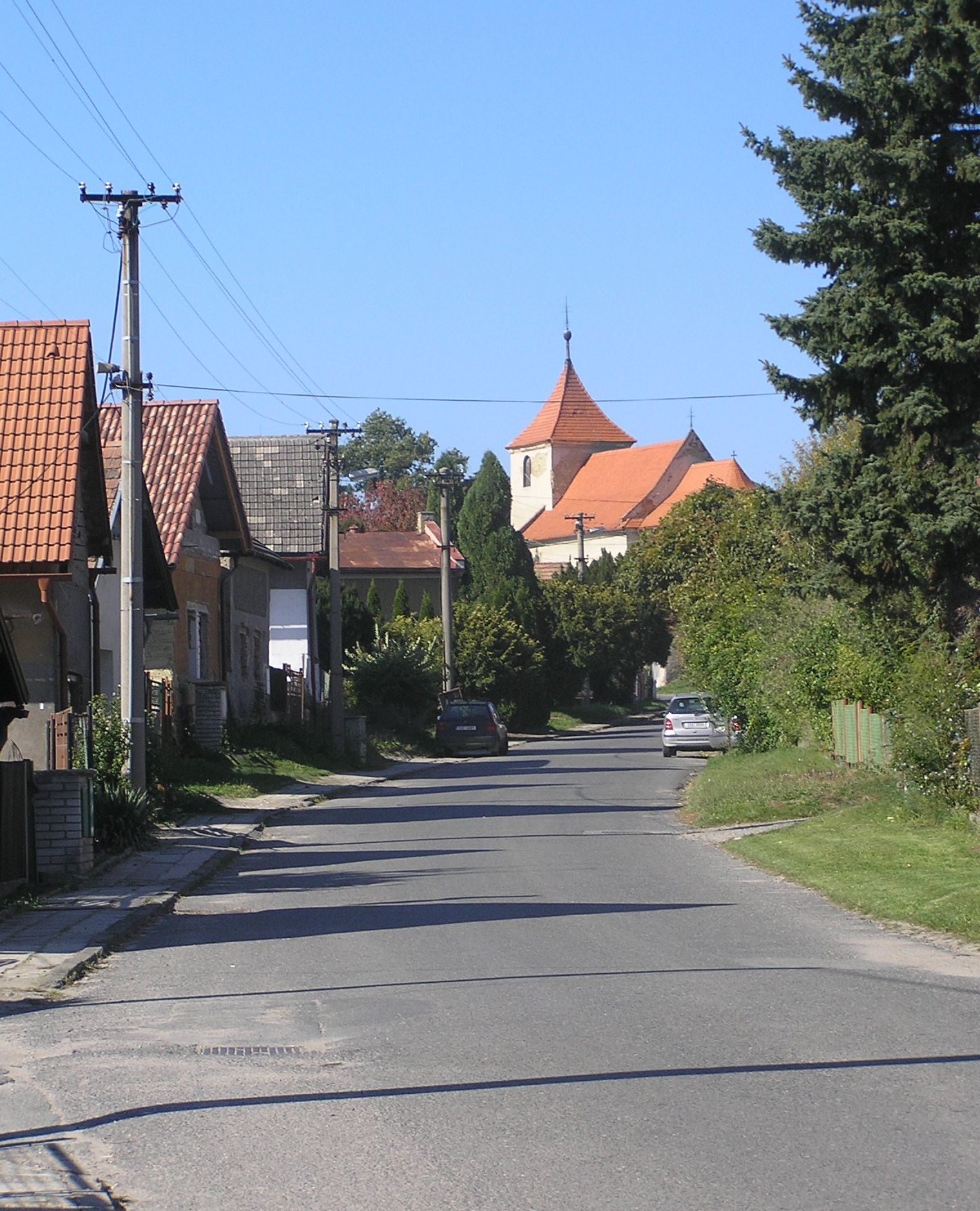 Czech Republic, village Struhy, St. Petrus and Paulus Church